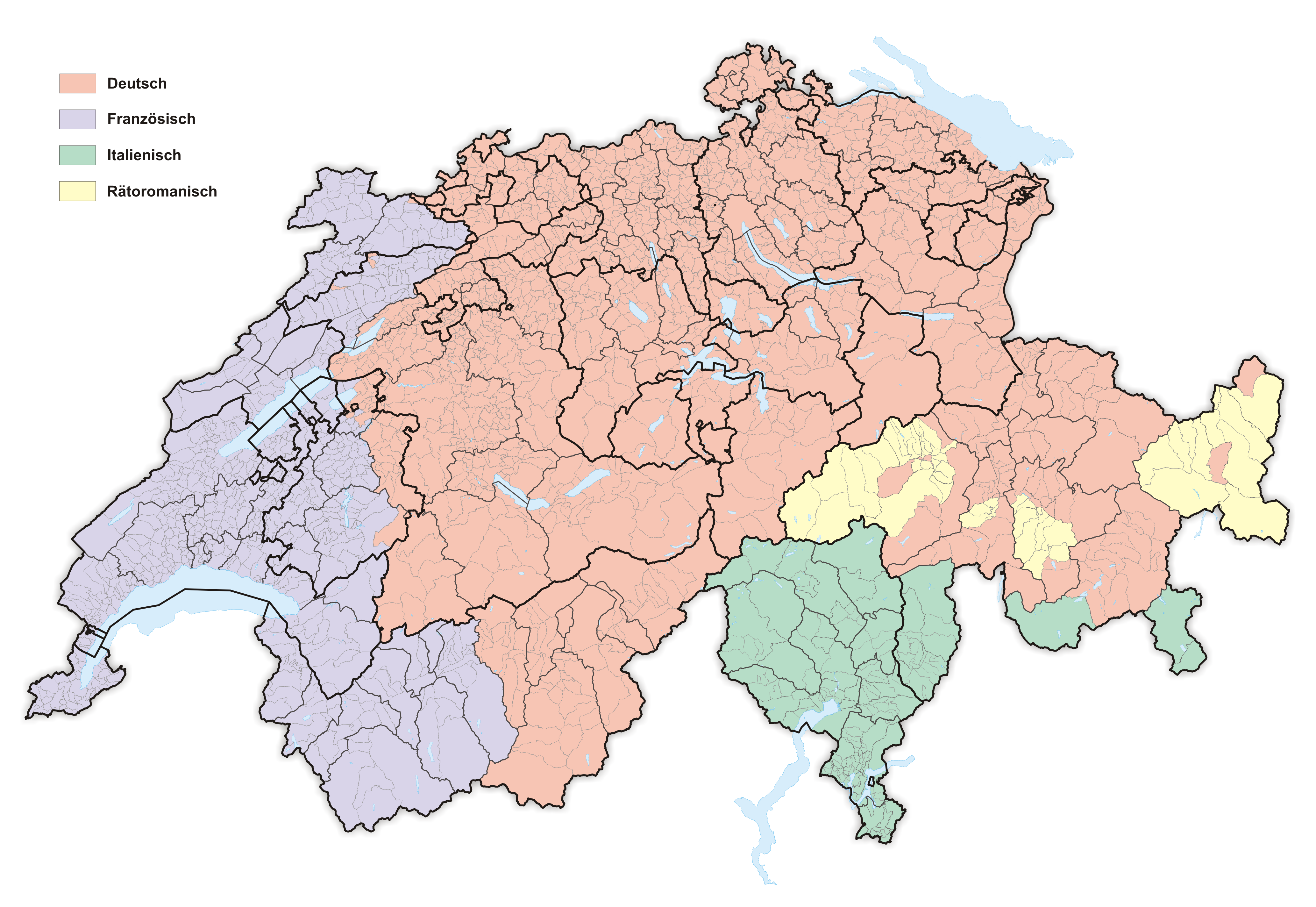 Language areas in Switzerland